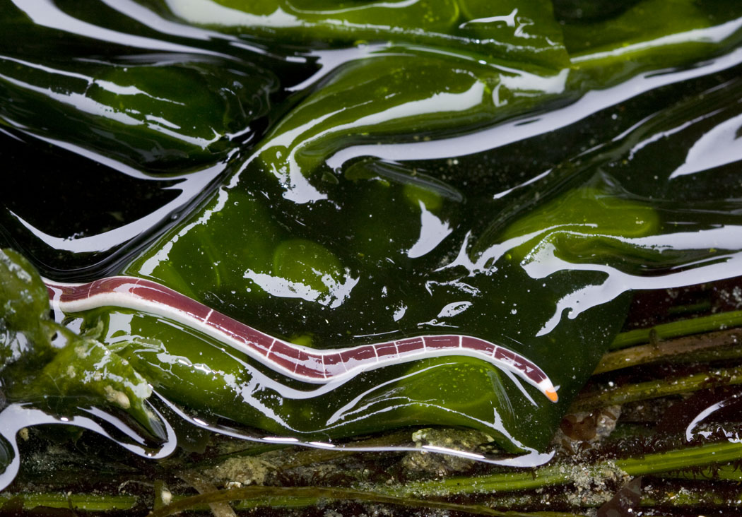 Ribbon worm Micrura verrilli (Heteronemertea: Lineidae).